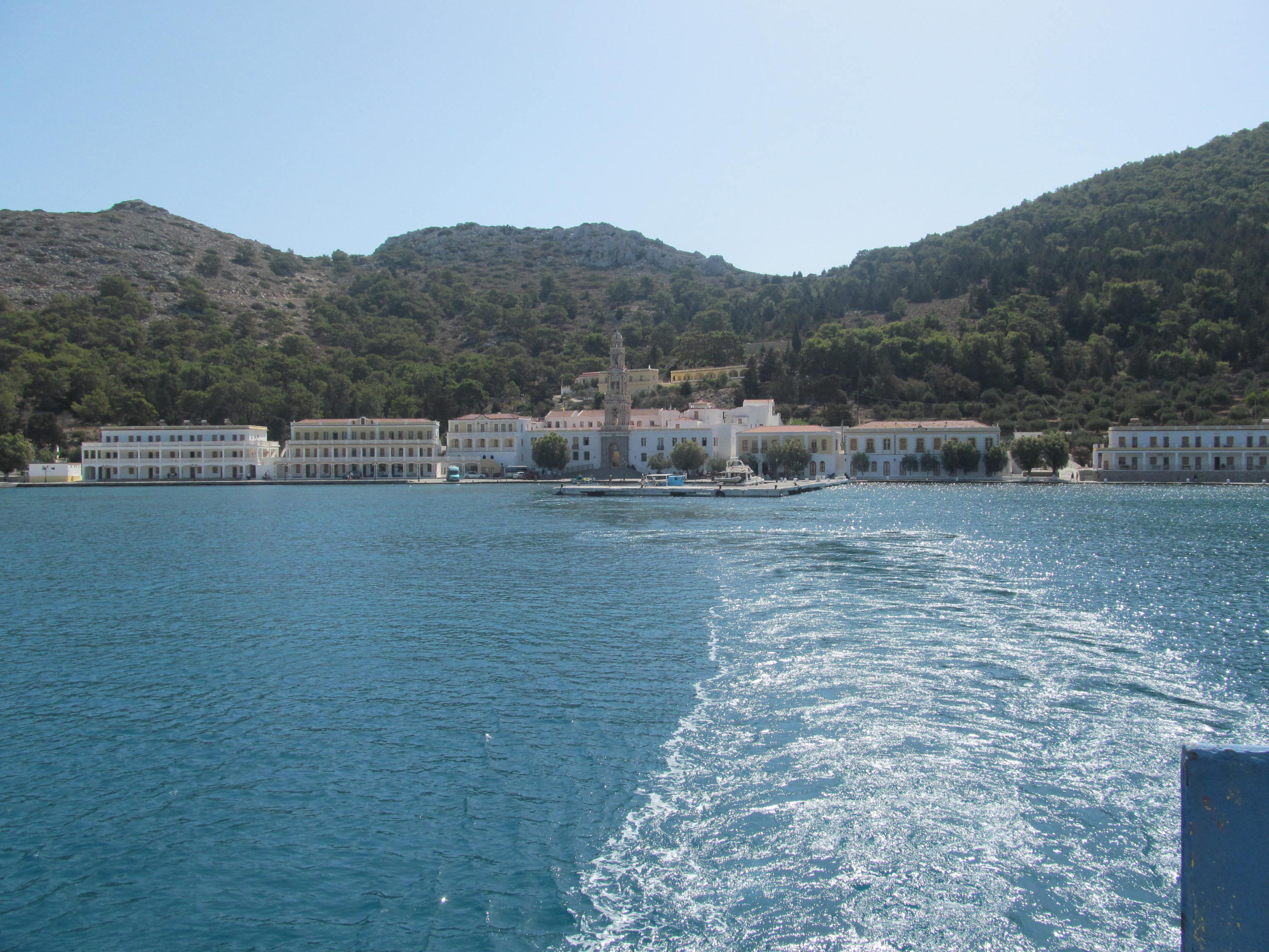 Monastery Panormitis